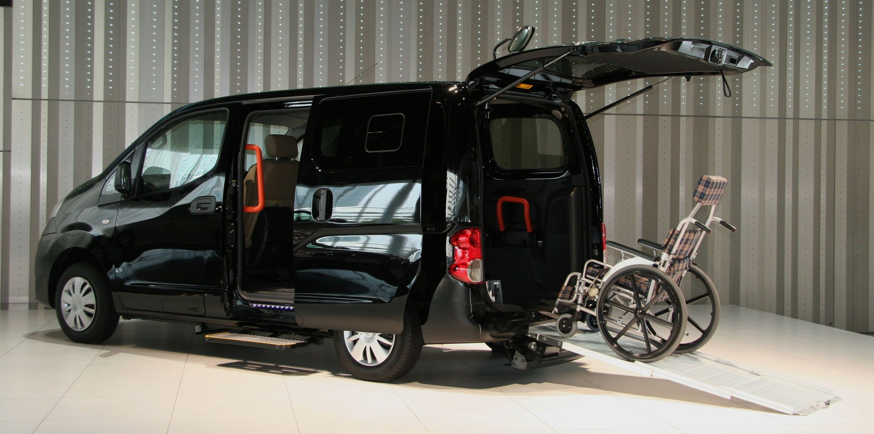 NISSAN NV200 VANETTE